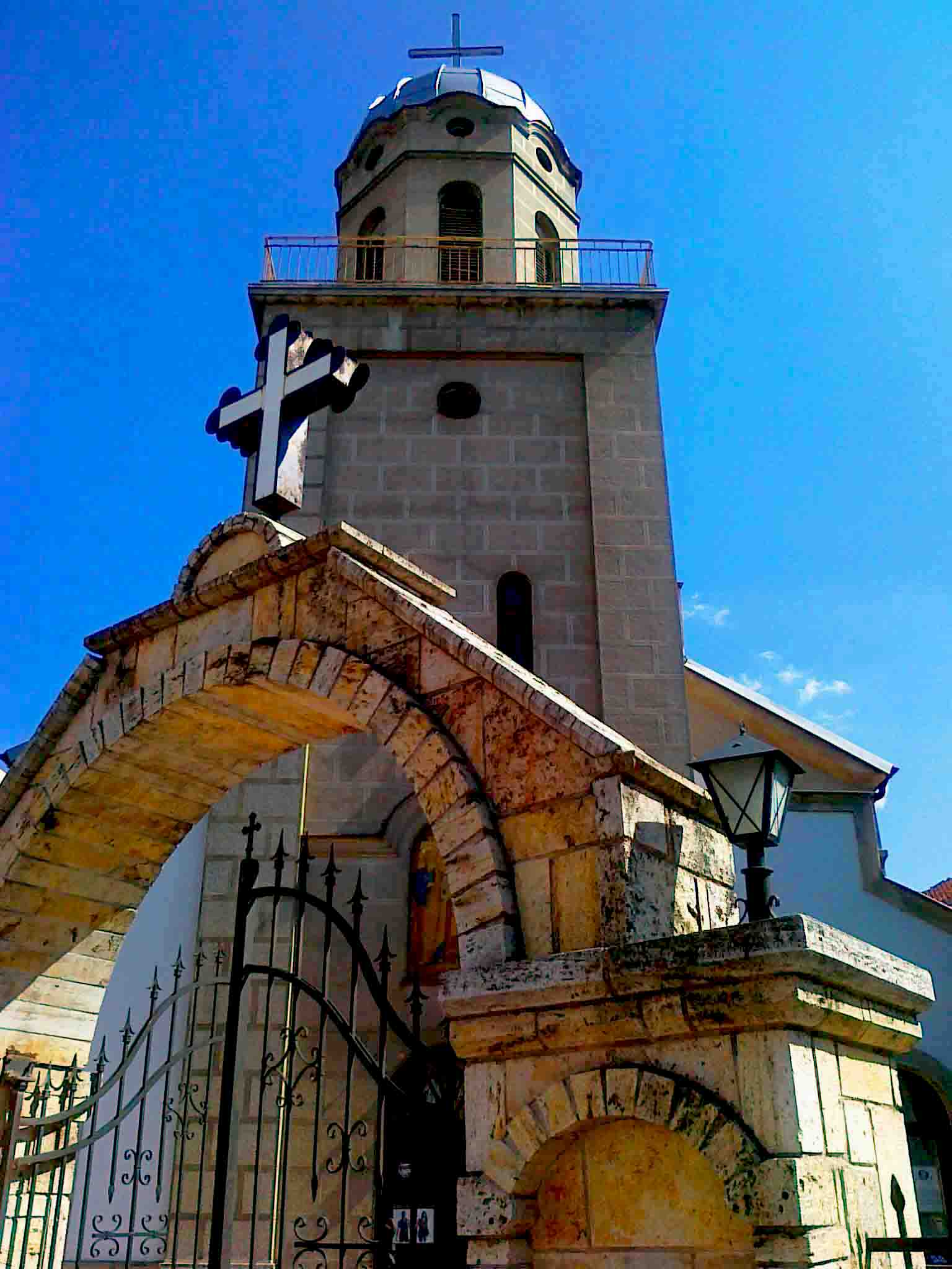 The church St. Apostle Peter and Paul in Kicevo city